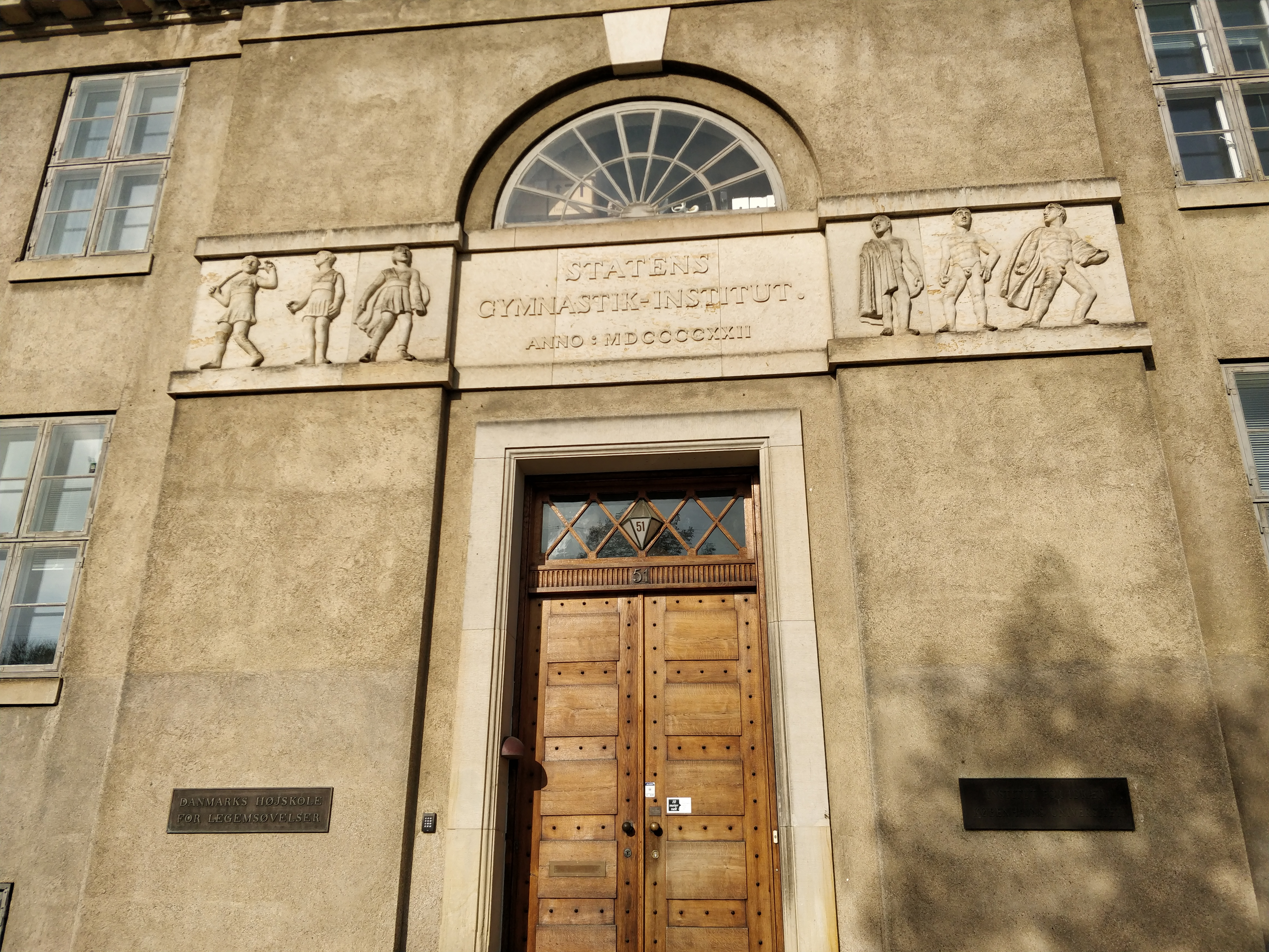 Frieze on the building for The State's Gymnasial Institute (Statens Gymnastikinstitut in Danish)